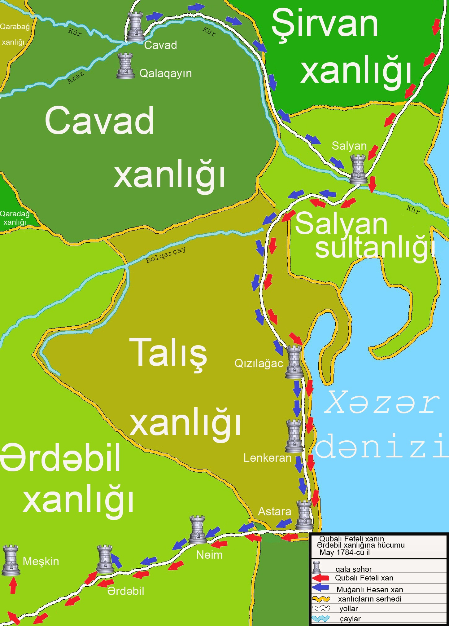 Guba khan Fatali khan's attack on Ardabil khanate. May 1784.